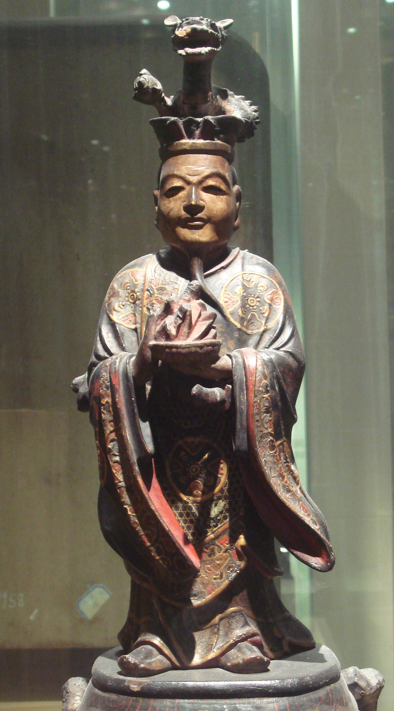 Hachi_Dairyuuoo_Nagaraja